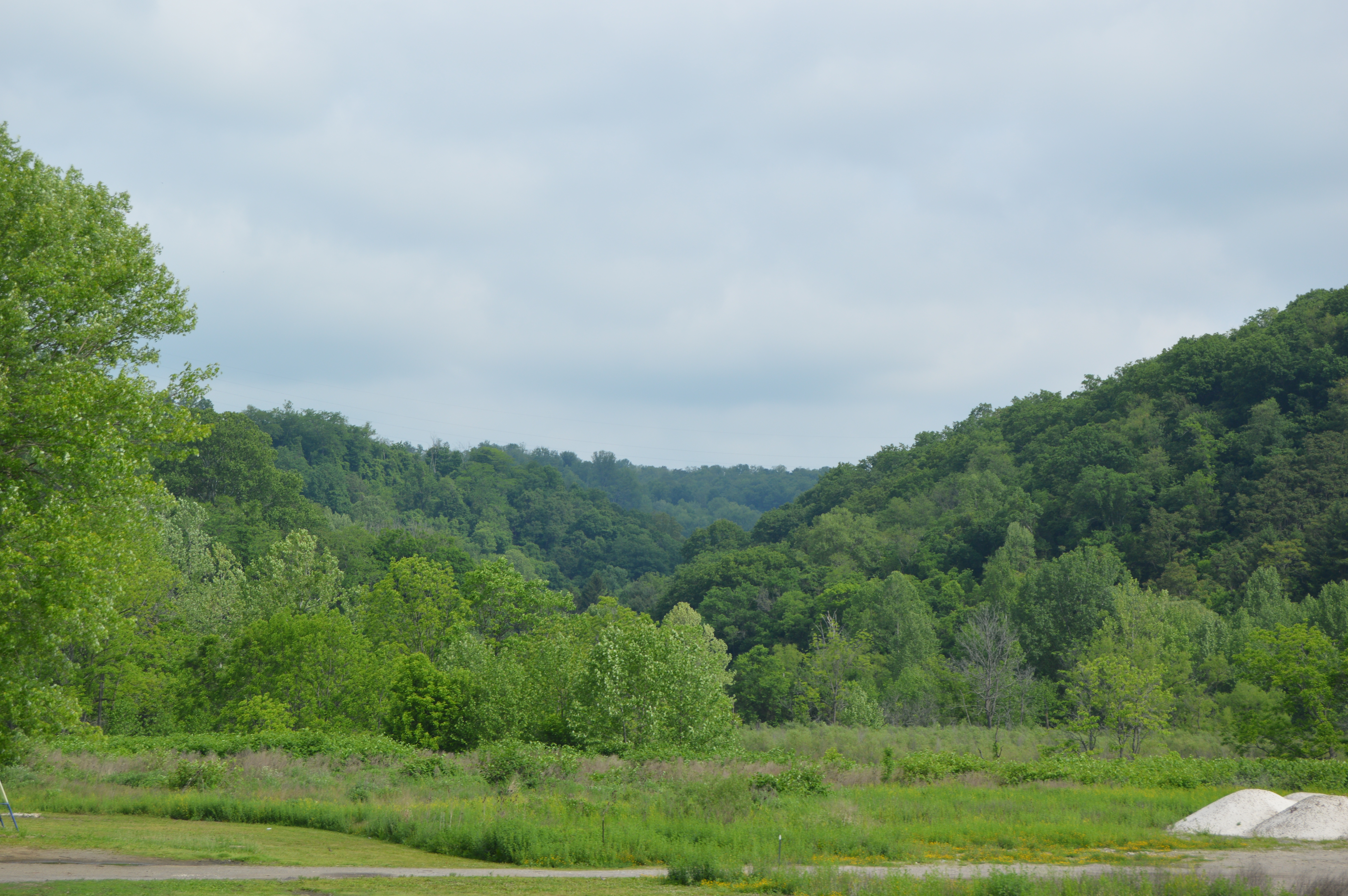 Hills in eastern Warren Township, looking west from State Route 150 in Rayland, Ohio, United States.